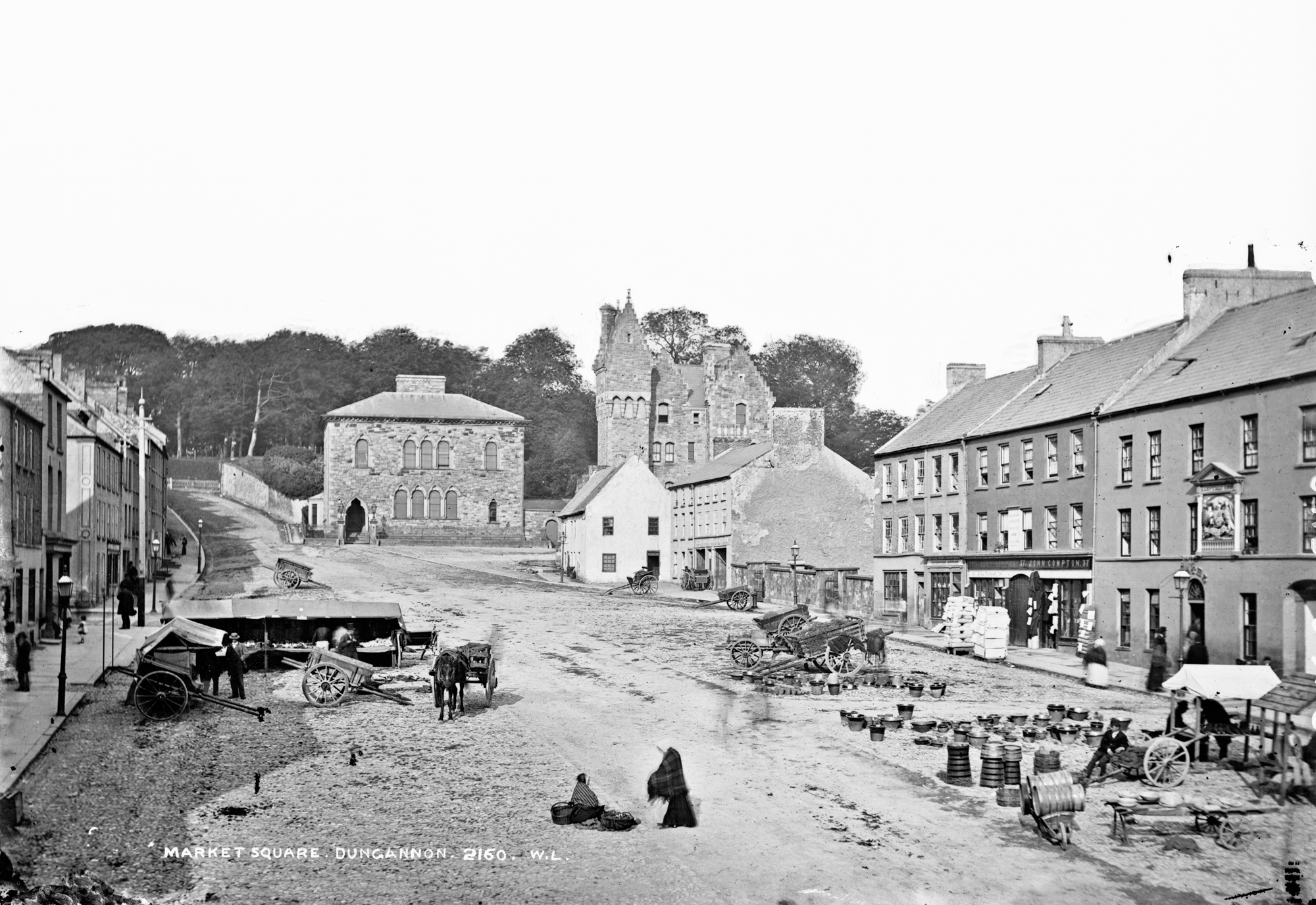 As you can tell from the ladies in the centre of the road, heavy traffic is anticipated any day soon! This beautiful photograph of the Market Square in Dungannon, County Tyrone shows traders all set up in anticipation of sales to the people who must surely come to the market! I haven't spotted a dog yet but in a scene such as this there must surely be one about. While some of the discussion today was on the 1871 Scots Baronial style barracks (and the almost certainly apocryphal story that the tower design was intended for constabulary barracks in the Far East), much of the conversation focused on the dating of the image. And indeed the timing of the image. The general consensus, based on the businesses present, is that this image dates from the early 1880s. Probably on a Thursday (which was market day in that period). And likely in the late afternoon (because of the shadows cast)..... Photographer: Robert French Collection: Lawrence Photograph Collection Date: Catalogue range c.1865-1914. Definitely after 1871 (tower). And before 1891 (post office) Likely c.1800 (businesses) NLI Ref: L_CAB_02160 You can also view this image, and many thousands of others, on the NLI’s catalogue at